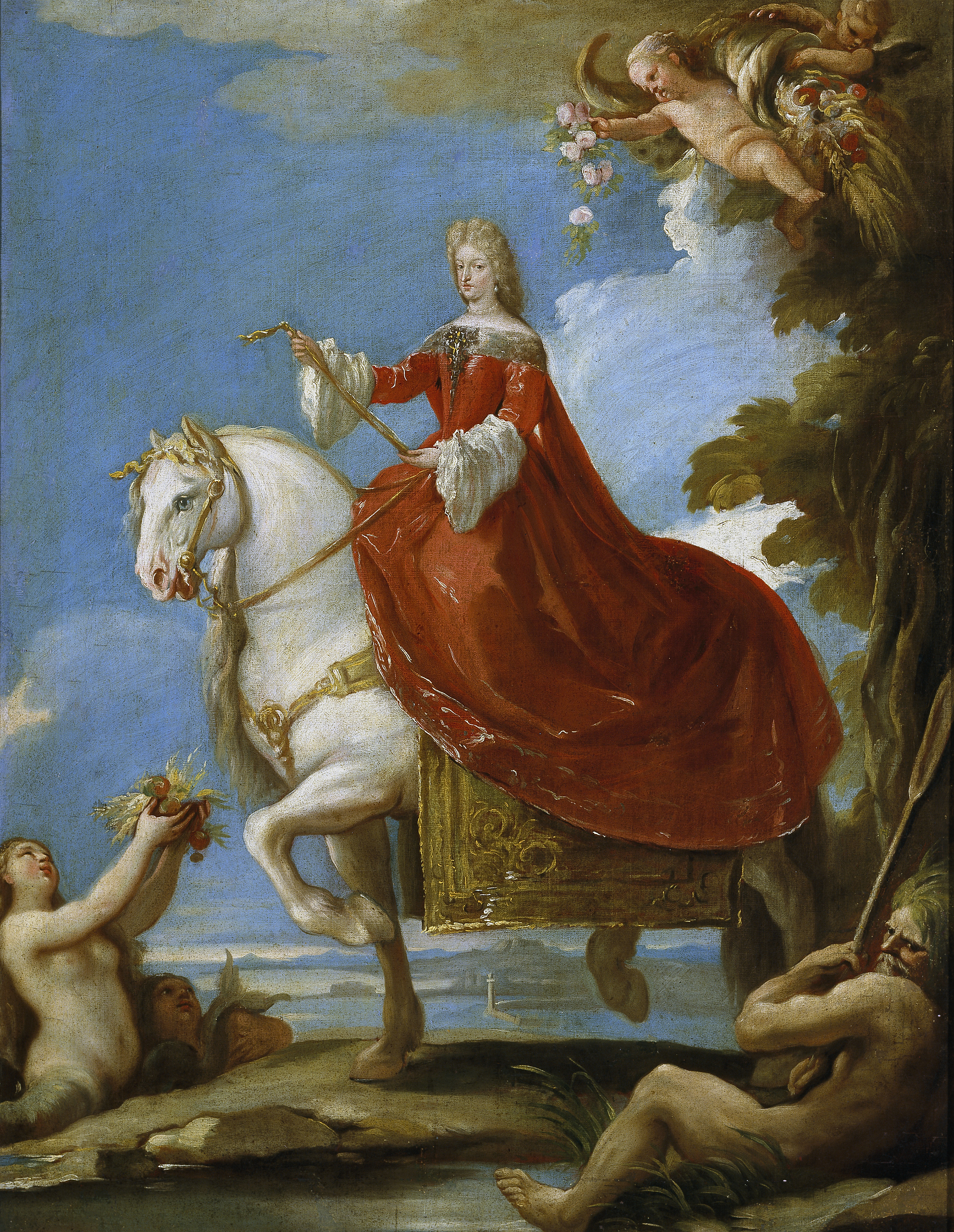 Portrait of Maria Anna of Neuburg